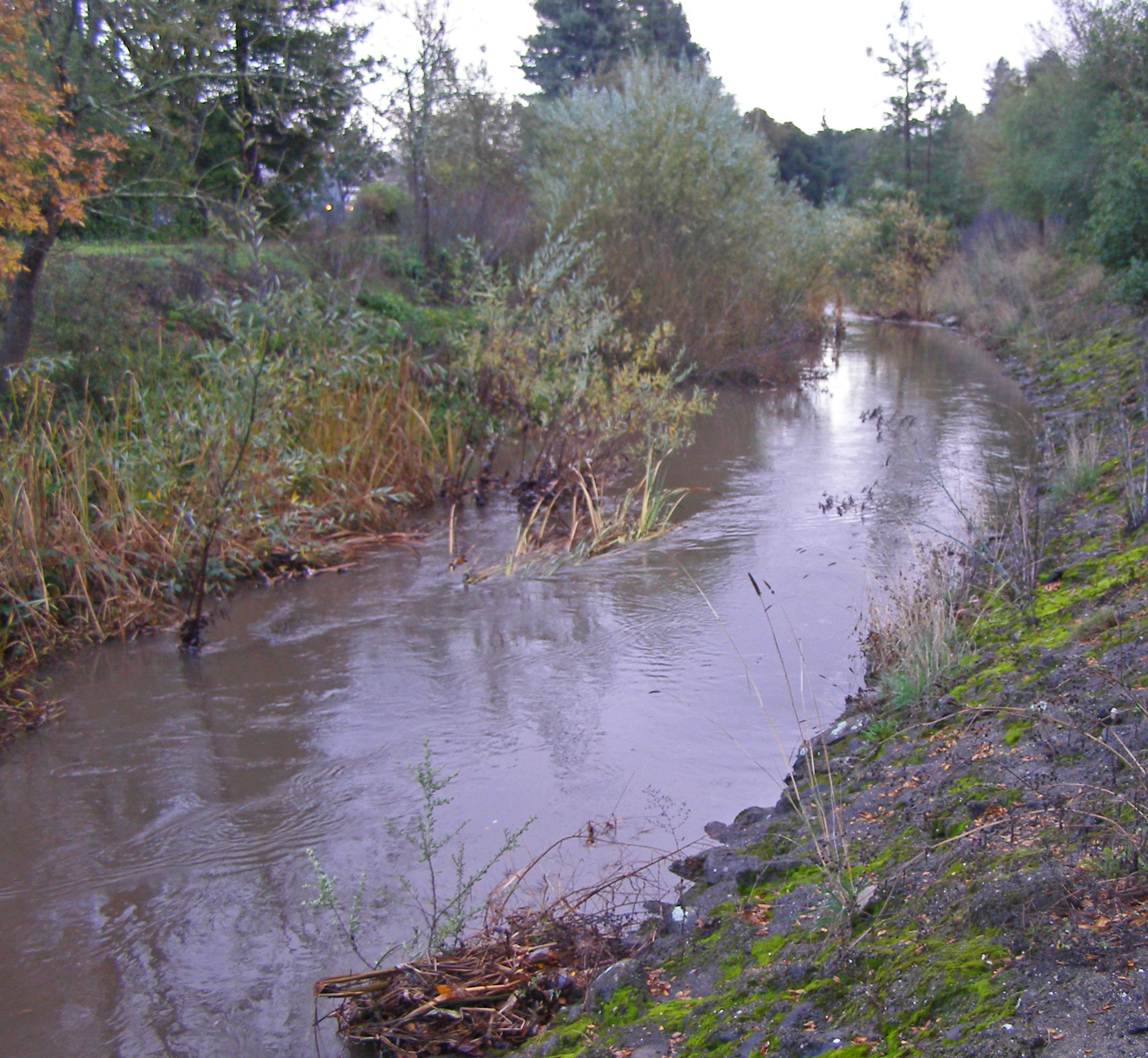 Brush Creek — section near California State Route 12 in Sonoma County, California. A tributary of Santa Rosa Creek.